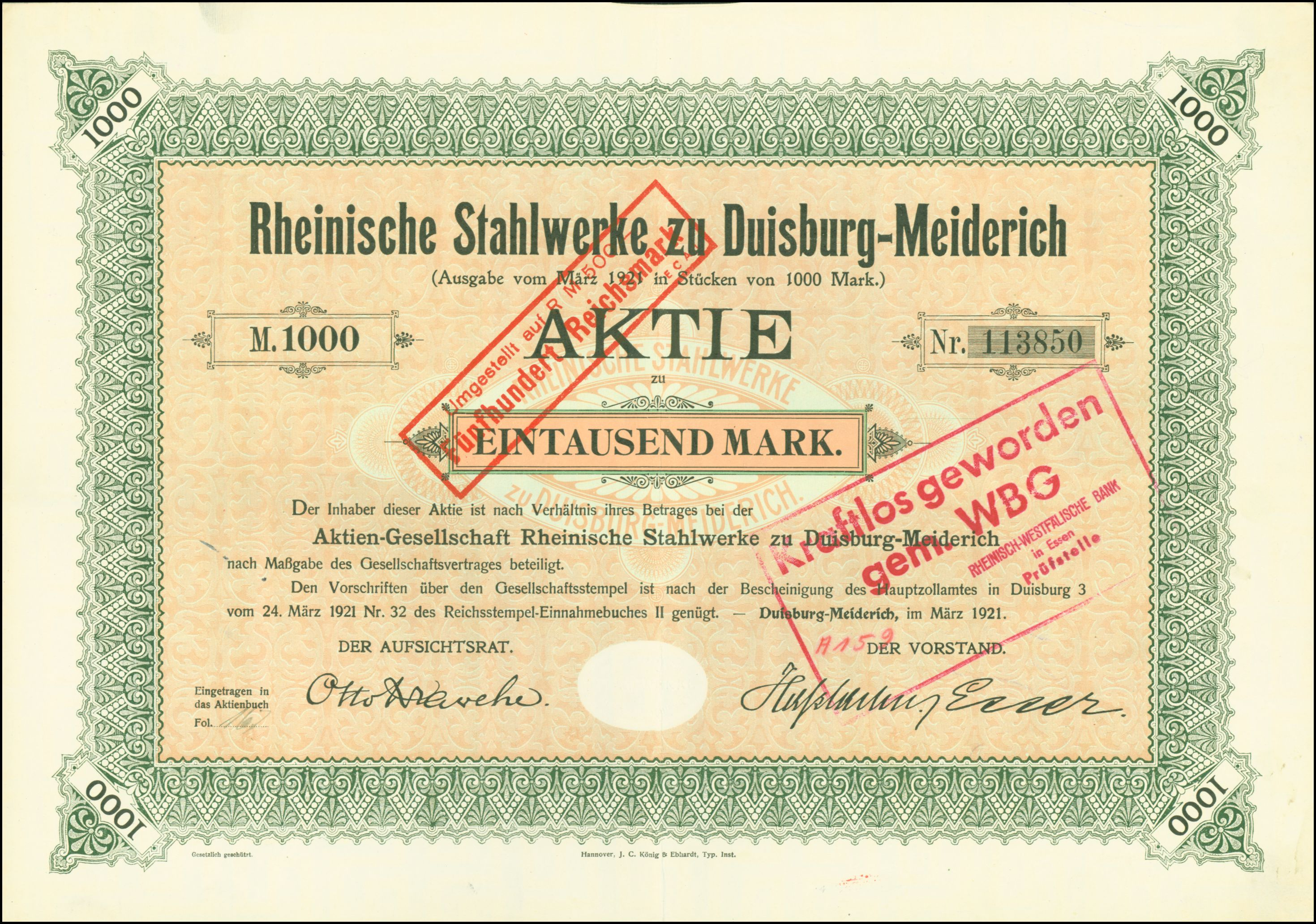 Share of the Rheinische Stahlwerke, issued March 1921